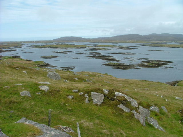 Loch Baghasdail Looking northwest from Ceann a Deas Loch Baghasdail.